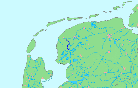 Location of a waterway (river/canal) in the Netherlends